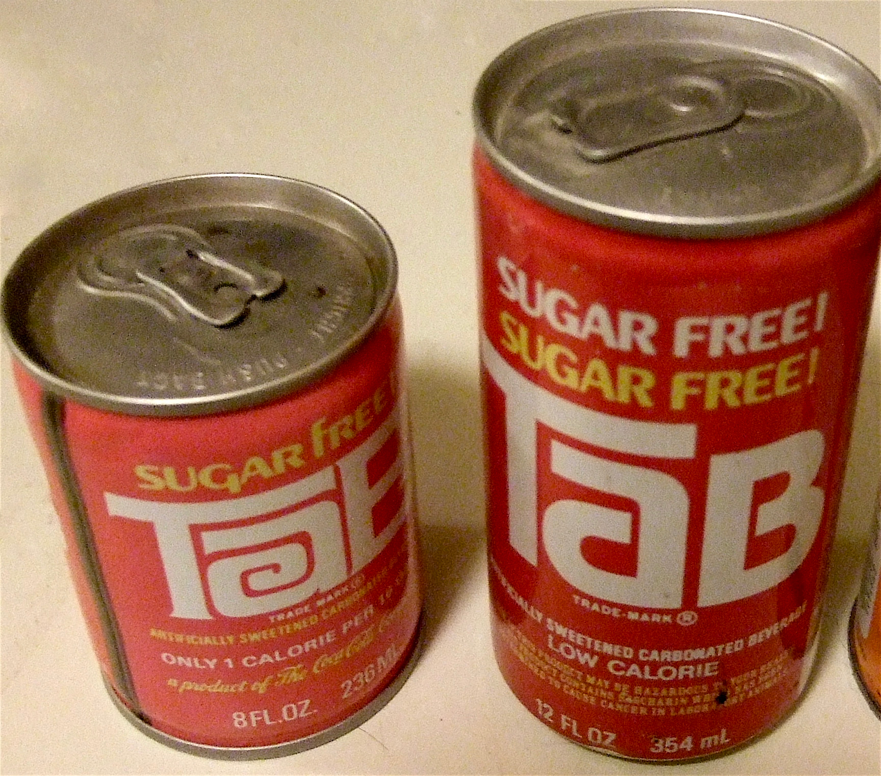 Vintage TaB cans c. 1970s